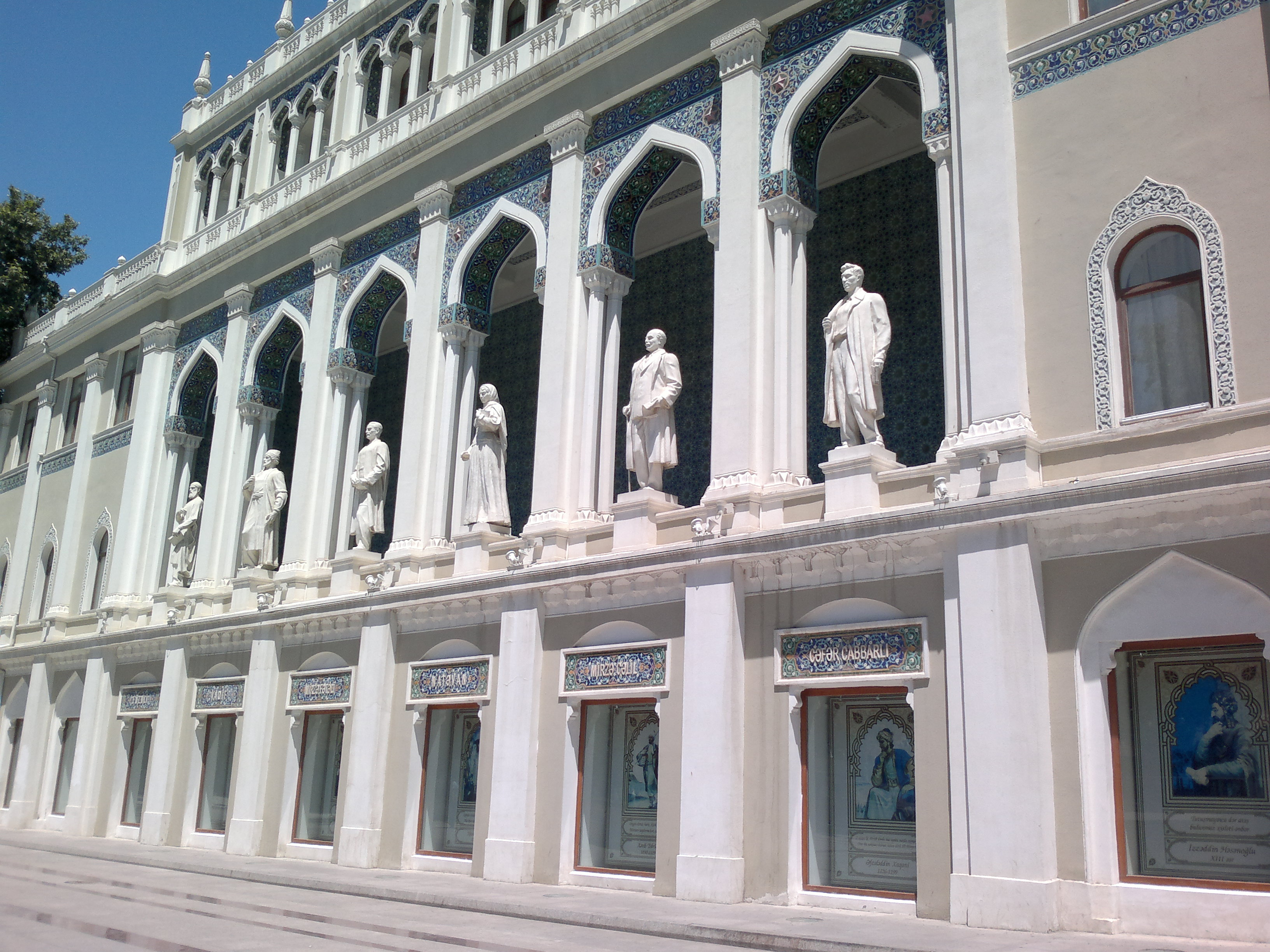 Nizami Museum of Azerbaijan Literature